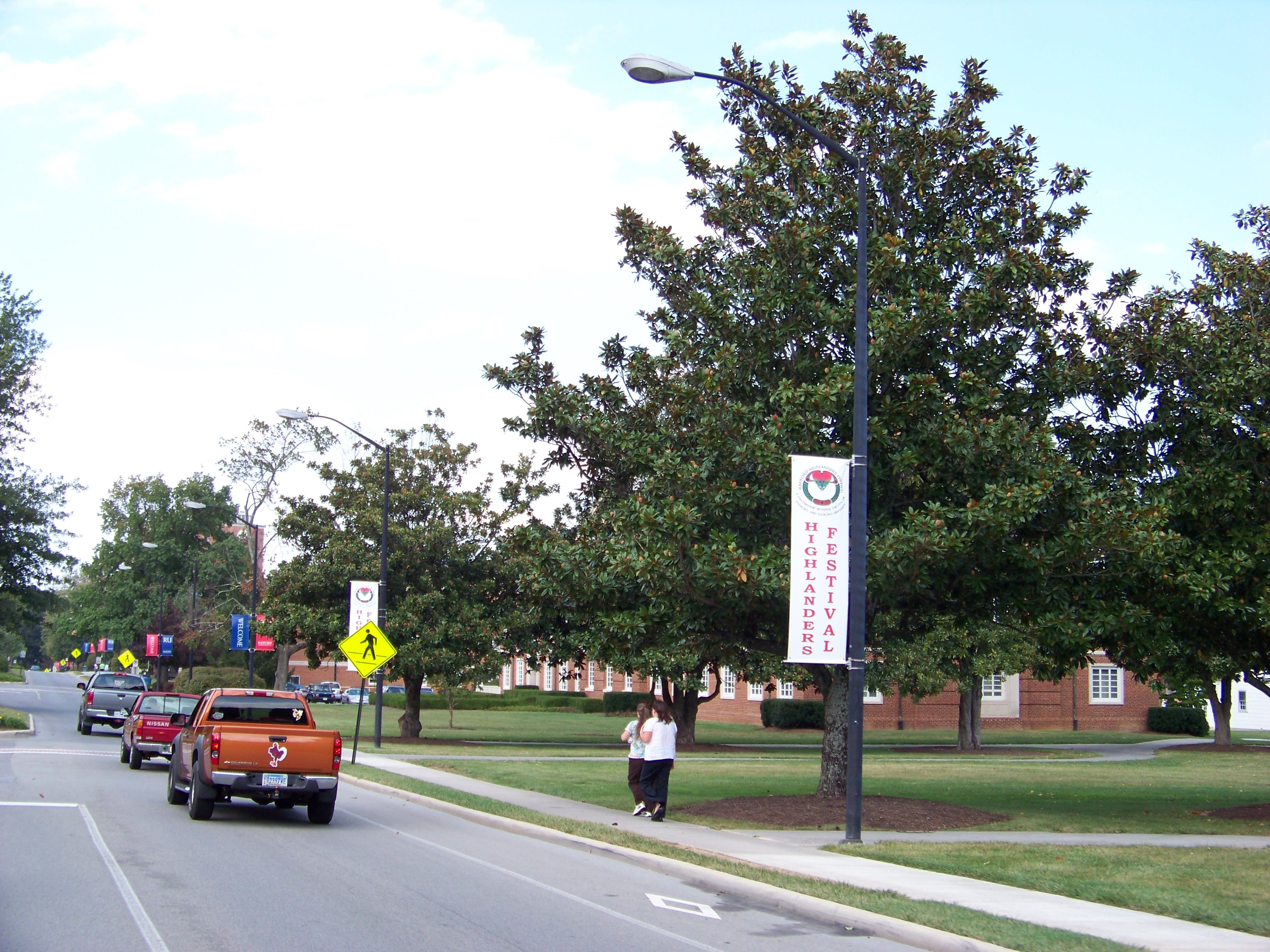 Radford University